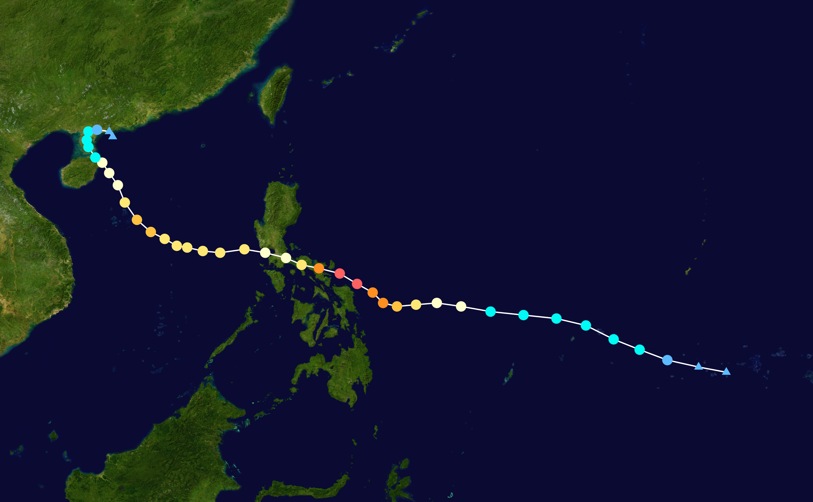 Track map of Typhoon Joan of the 1970 Pacific typhoon season. The points show the location of the storm at 6-hour intervals. The colour represents the storm's maximum sustained wind speeds as classified in the Saffir–Simpson hurricane wind scale (see below), and the shape of the data points represent the nature of the storm, according to the legend below. Saffir–Simpson hurricane wind scale Tropical depression≤38 mph≤62 km/h Category 3111–129 mph178–208 km/h Tropical storm39–73 mph63–118 km/h Category 4130–156 mph209–251 km/h Category 174–95 mph119–153 km/h Category 5≥157 mph≥252 km/h Category 296–110 mph154–177 km/h Unknown Storm typeTropical cycloneSubtropical cycloneExtratropical cyclone / Remnant low / Tropical disturbance